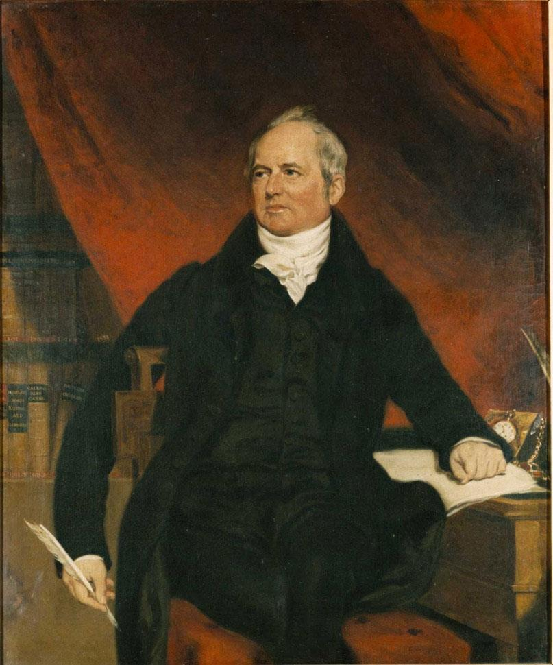 Portrait of John Rickman, House of Commons Clerk Assistant and Secretary to Speaker Abbot between 1802–1814.